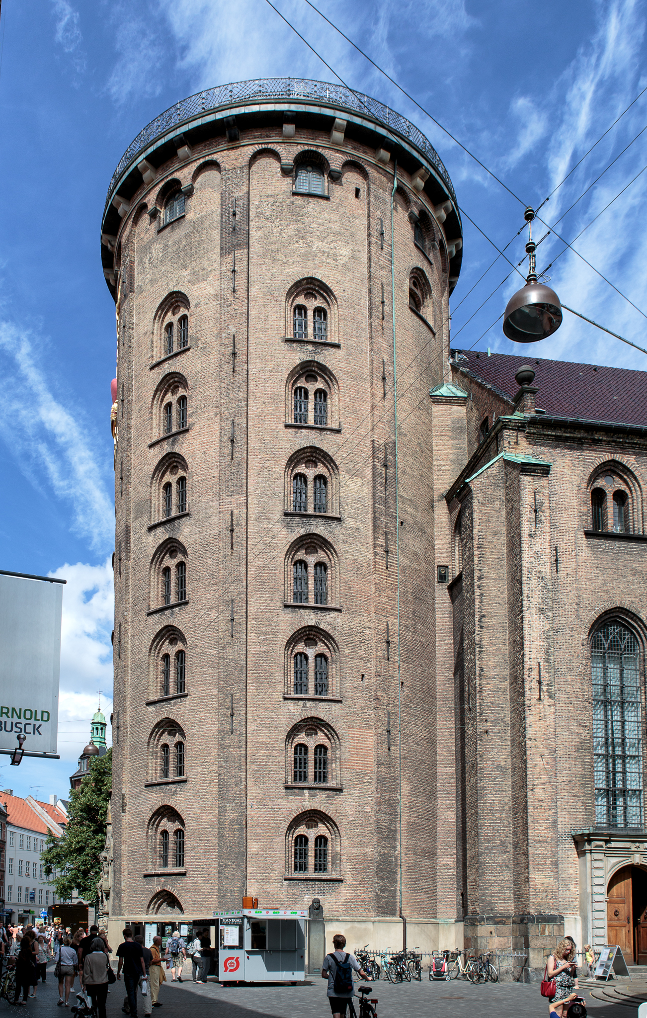 Copenhagen - Rundetårn - 2013